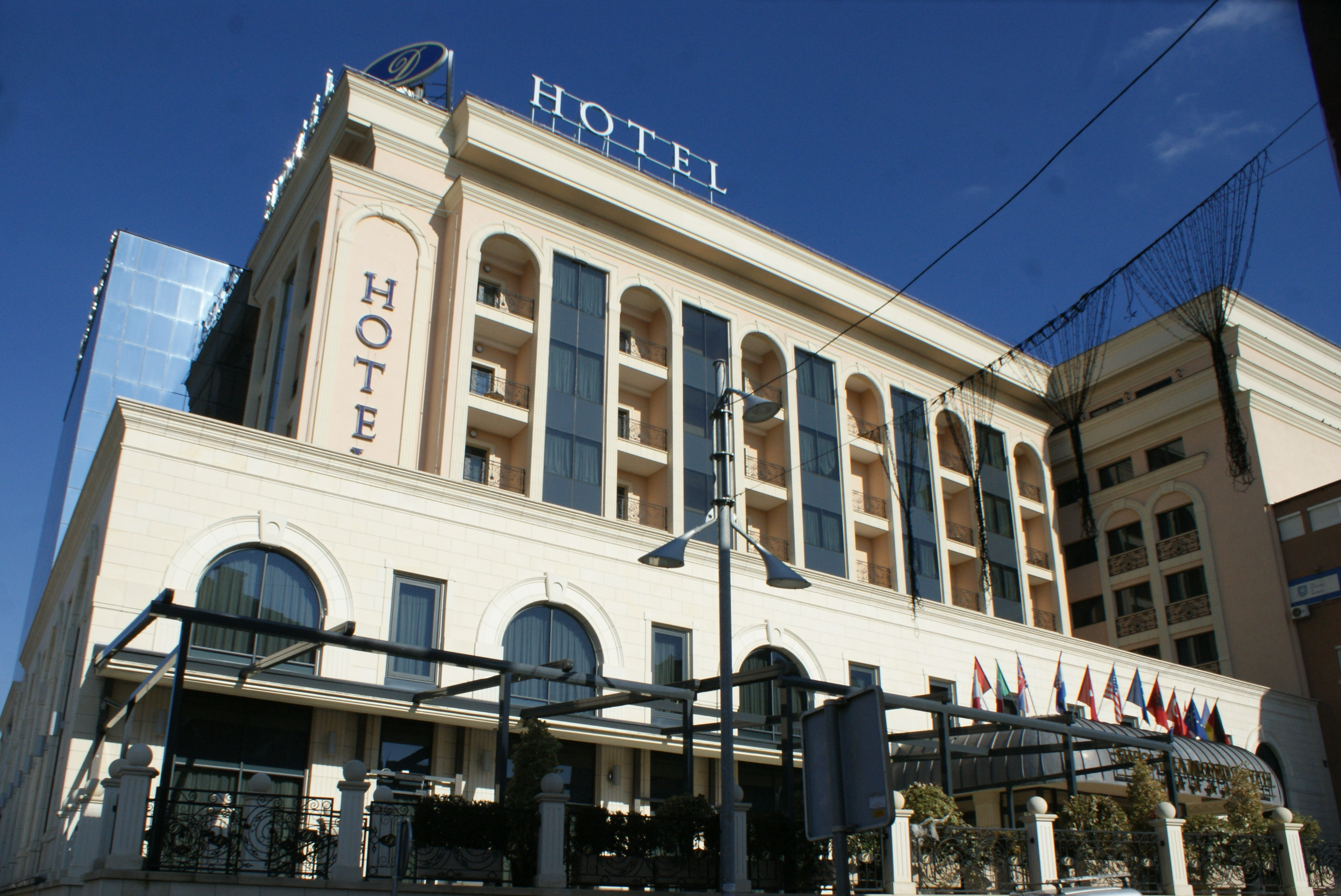 One of the famous Hotels in Prishtina.